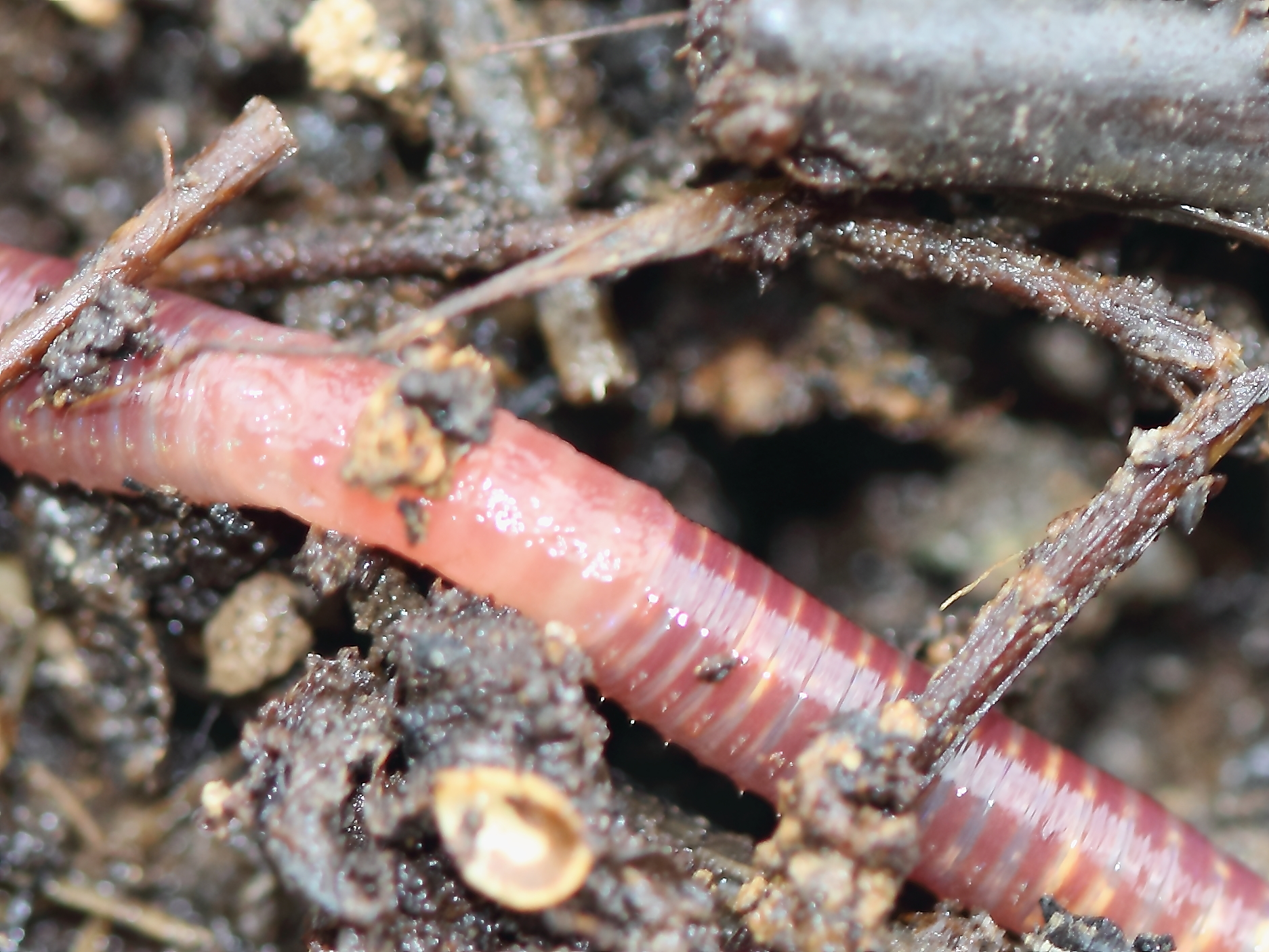 close-up of red wiggler worm with visible bristles